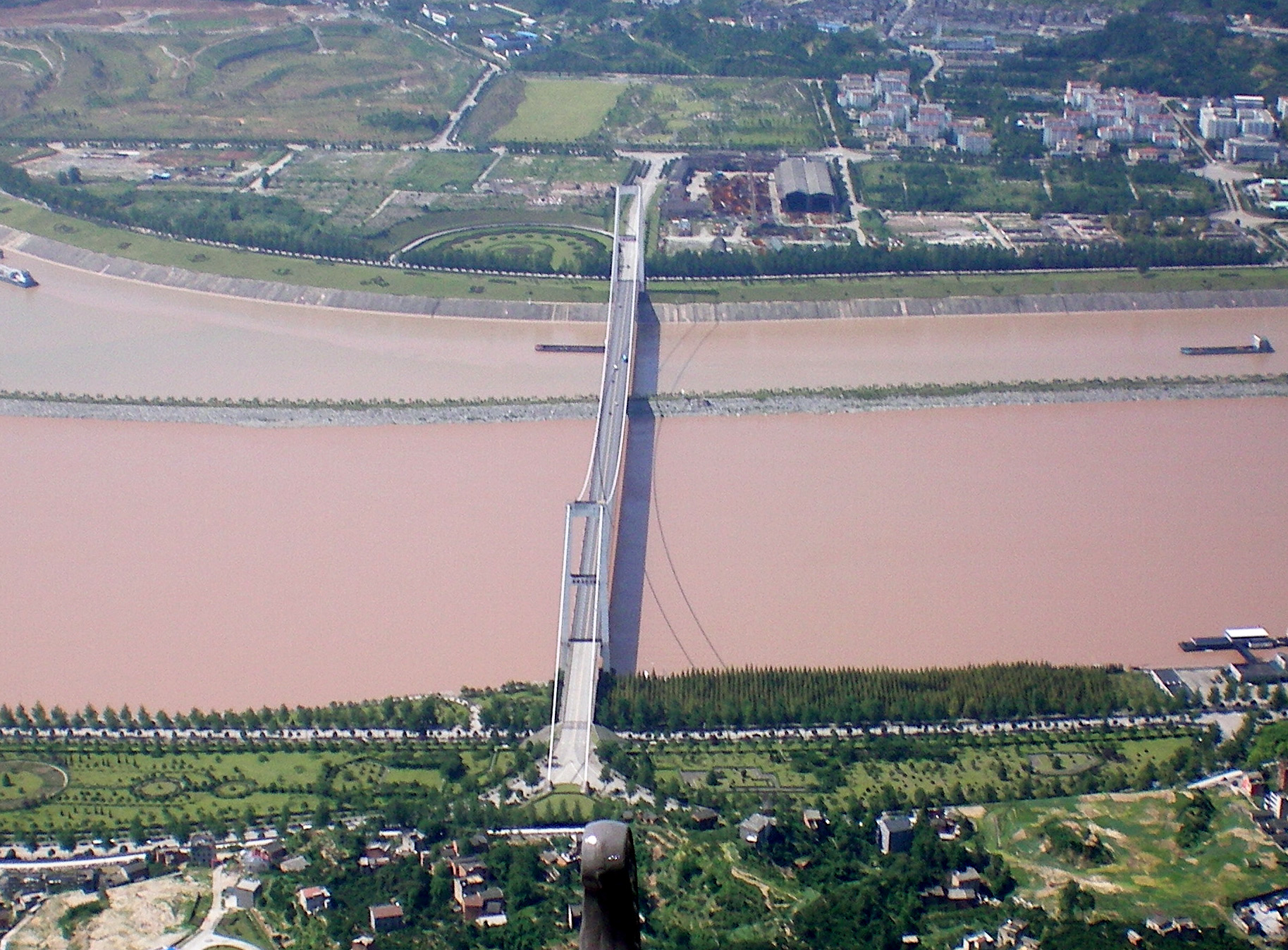 Bird’s Eye View of Xiling Yangtze Bridge